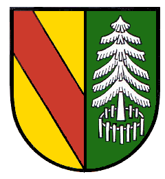 Coat of arms of Gundelfingen (Breisgau)